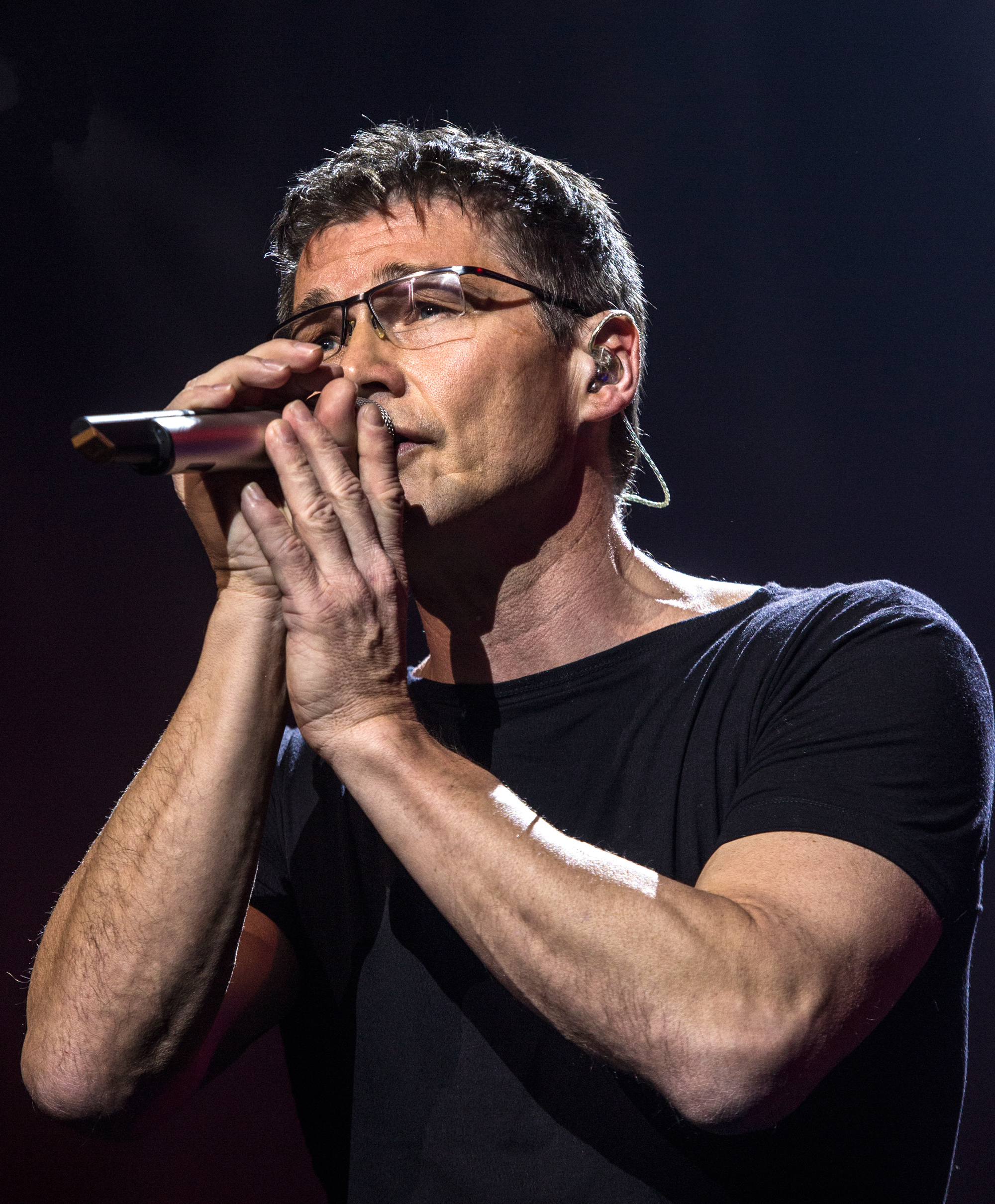 Morten Harket, singer of a-ha, during the AIDA Night of the Proms at Festhalle Frankfurt, Germany.